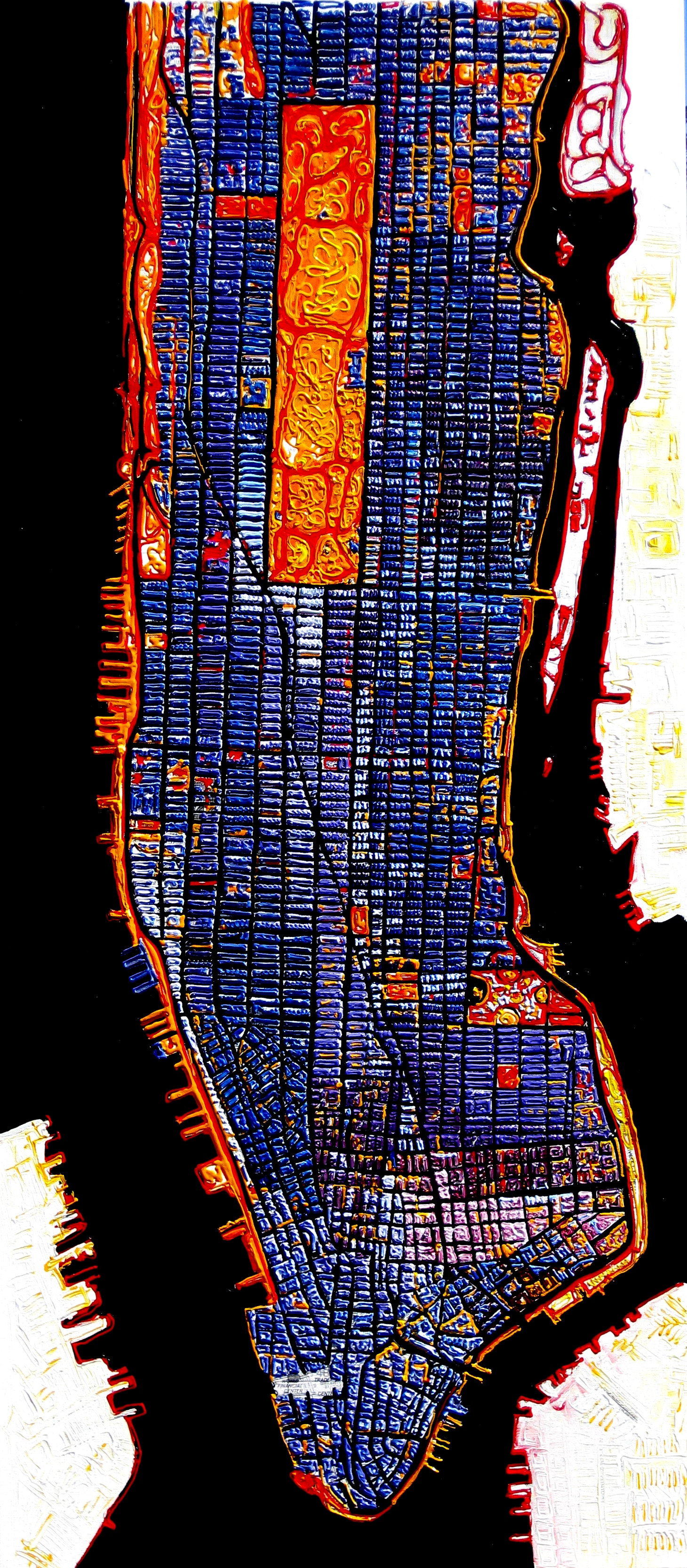 Manhattan 120x150 Acryl auf Leinwand